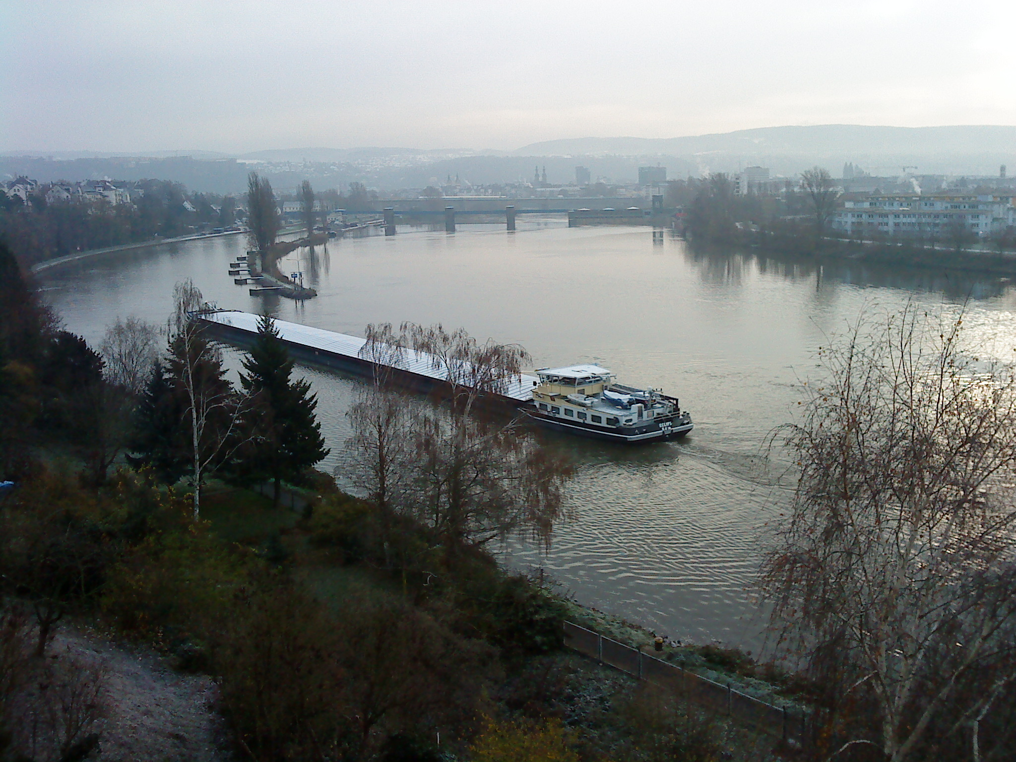 Access of a ship to the sluice Koblenz at the Mosella